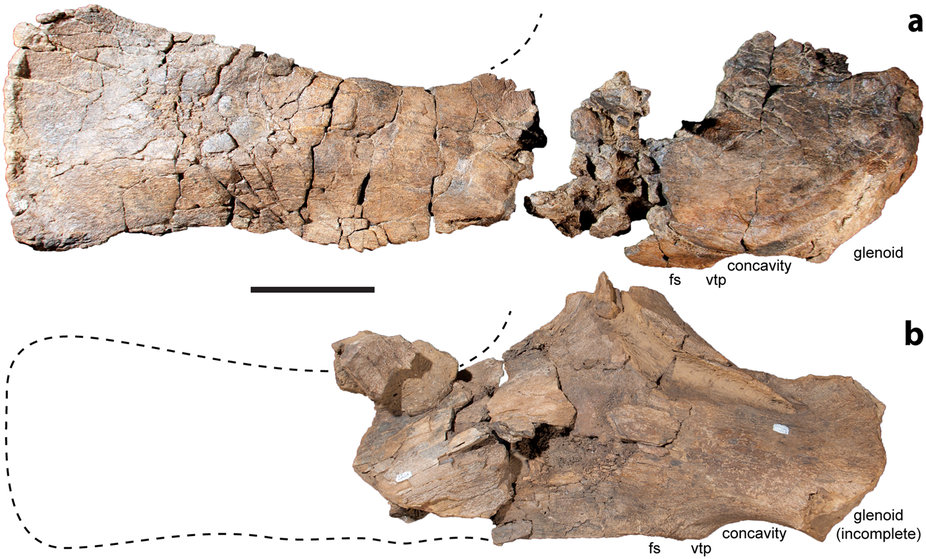 Figure 6: Scapulae of Diamantinasaurus matildae.(a) Diamantinasaurus matildae holotype right scapula AODF 603 (right lateral view). (b) Diamantinasaurus matildae referred right scapula AODF 836 (right lateral view). Abbreviations: fs, flattened surface; vtp, ventral triangular process. Scale bar = 200 mm for (a) and 140 mm for (b).